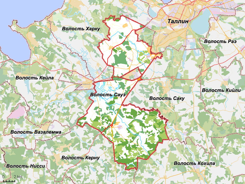 Map of municipality in Estonia